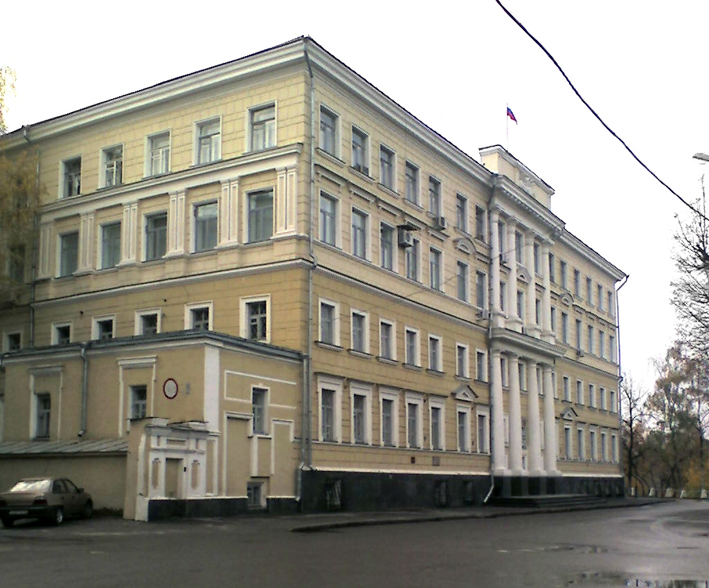 Administration building of the Nizhegorodsky District of the city of Nizhny Novgorod